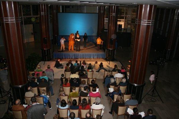 Riverfront Family Church of Glastonbury worship service, USA.